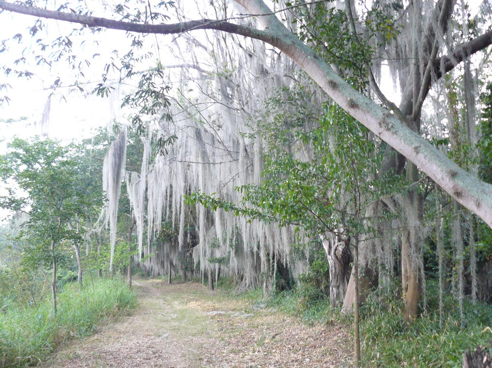 Trail at the Laguna de Sonso Nature Reserve. Trees with Spanish moss.